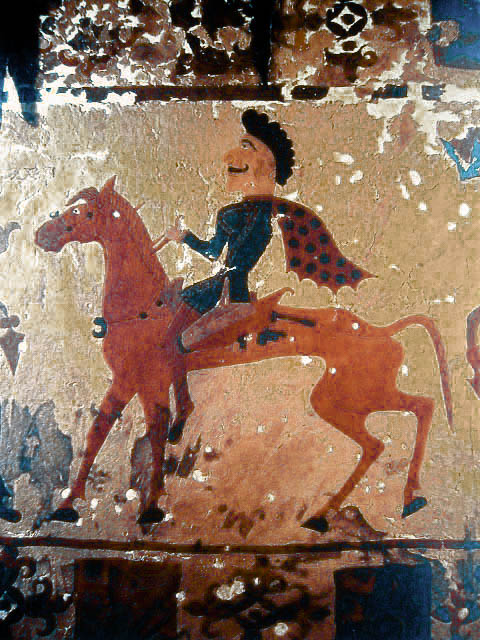 Pazyrik horseman. Circa 300 BC. Detail from a carpet - 5-4 th century B.C..- in the State Hermitage Museum in St Petersburg. (see e.g. this image)